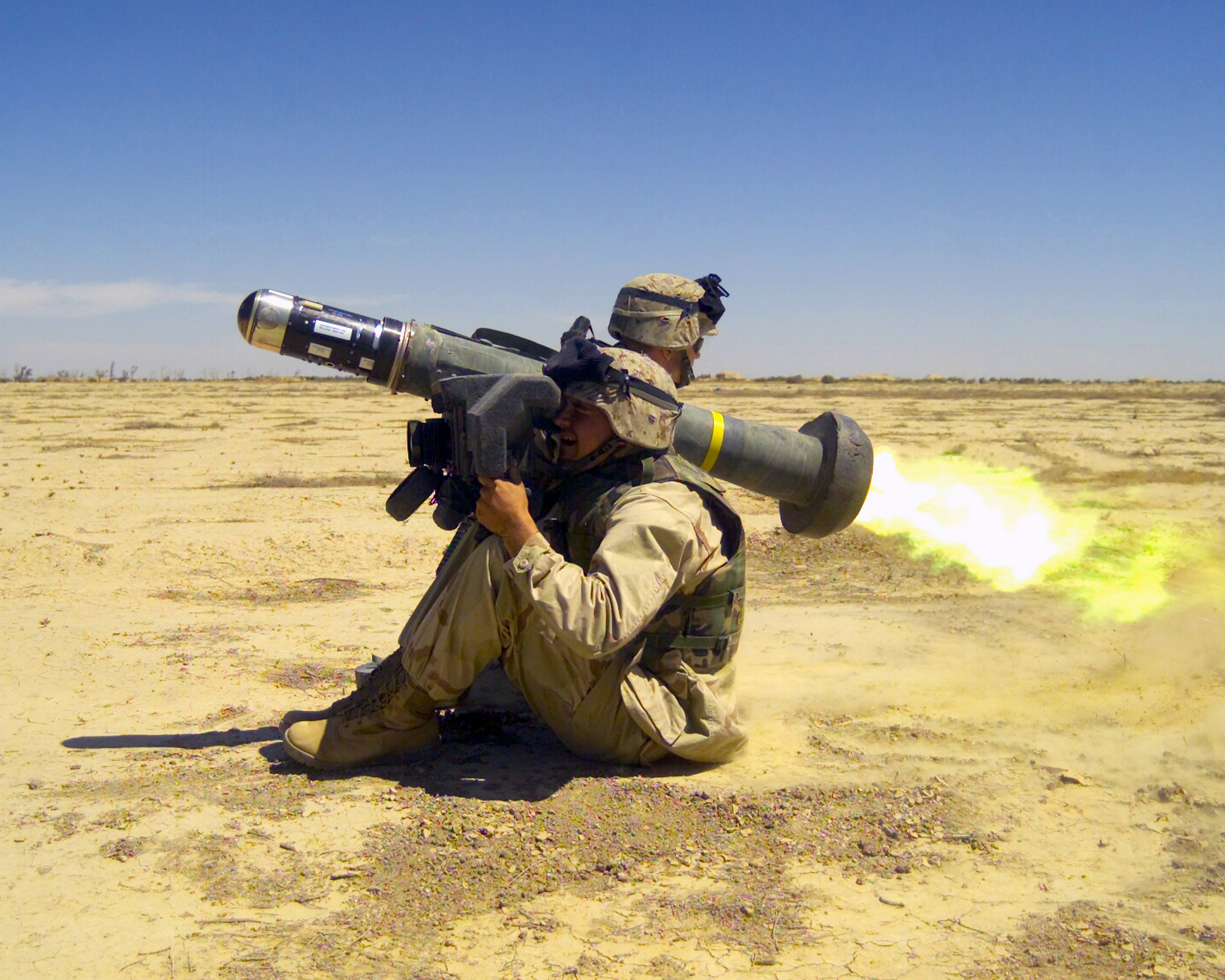 A US marine launches a FGM-148 Javelin anti-tank missile